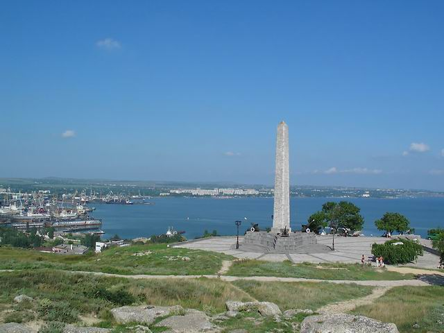 Photo of the Kerch harbor and Memorial of World War II (taken August 6, 2003 by Clipper).